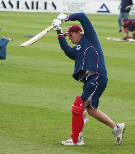 Cameron White warming up at Taunton